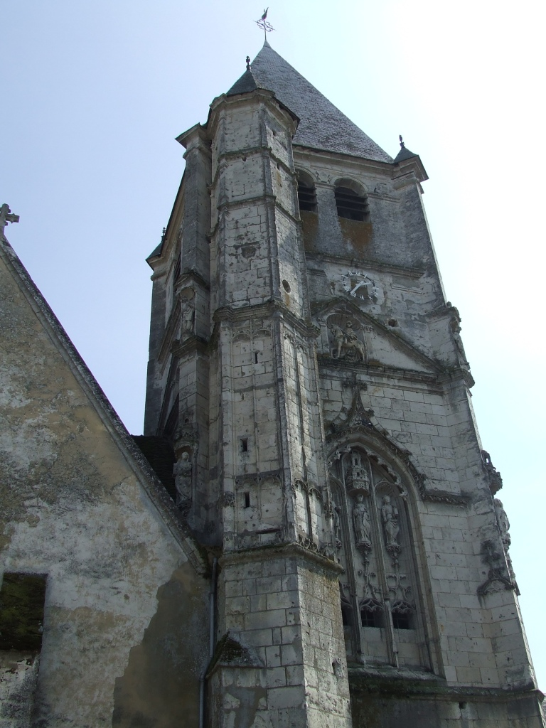 Bell tower of the Saint Martin Church, Longny-au-Perche, Orne, France